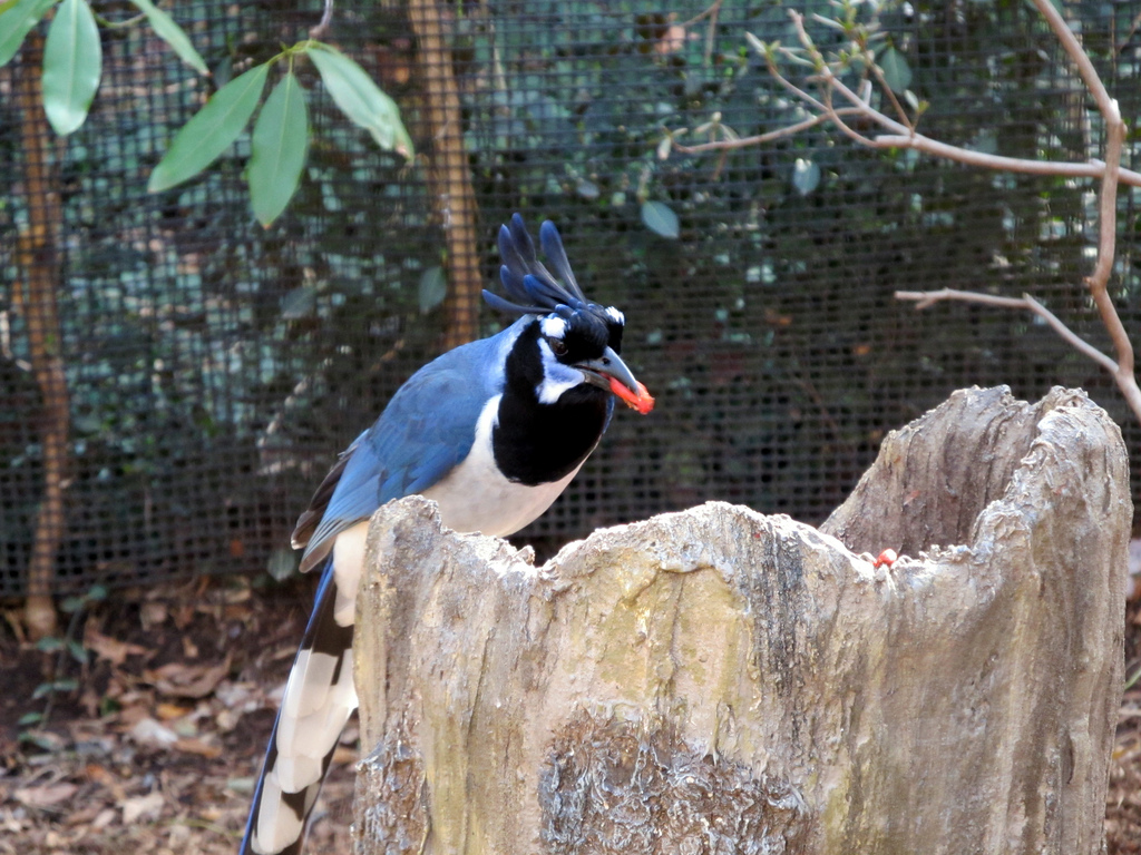 Such an awesome bird, like a blue jay on steroids. It was also one of the most active birds I've ever seen. Corvid intelligence?